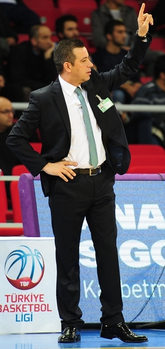 Murat Polat Basketbol Antrenörü